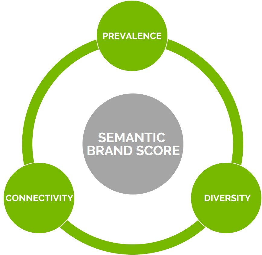 Image representing the Semantic Brand Score and its three dimensions.